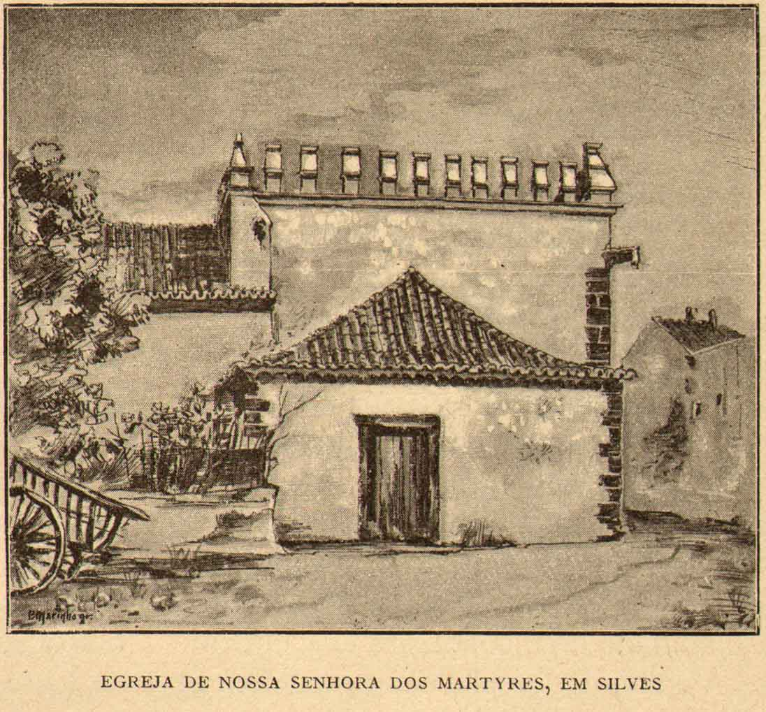 Illustration by Alfredo Roque Gameiro in the book História de Portugal, popular e ilustrada, by Manuel Pinheiro Chagas